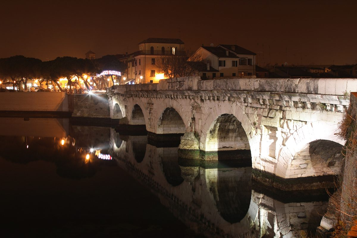 The Roman Ponte di Tiberio ("Tiberius Bridge") in Rimini, Italy